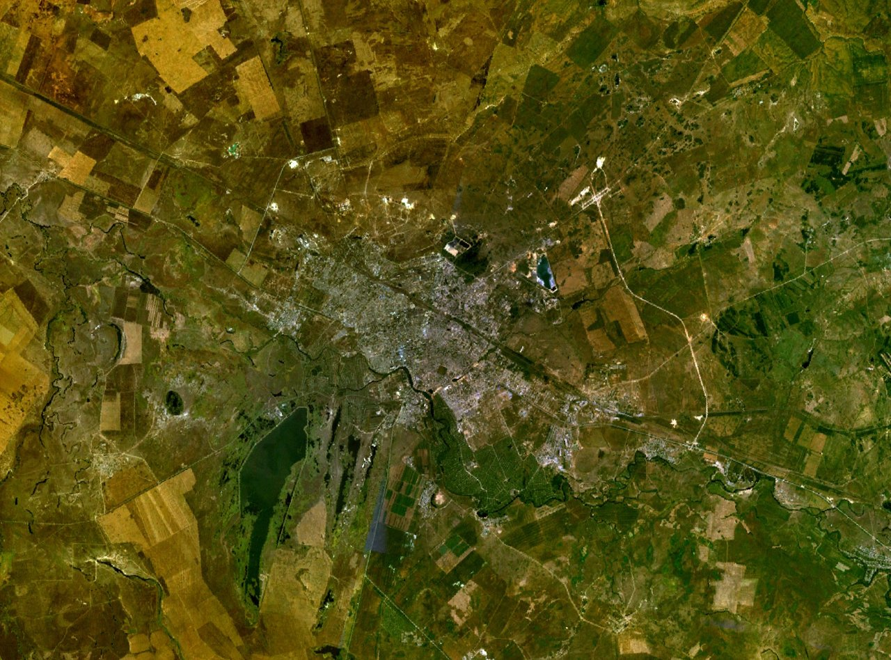 Satelitte Image of Nur-Sultan